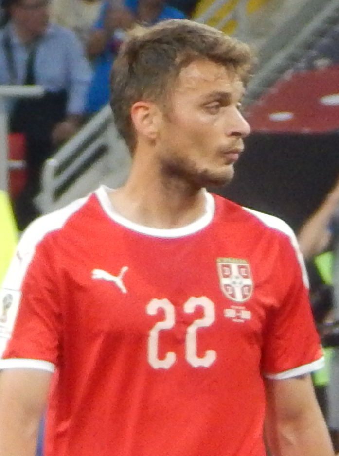 FIFA World Cup 2018, Group E, Serbia vs. Brazil